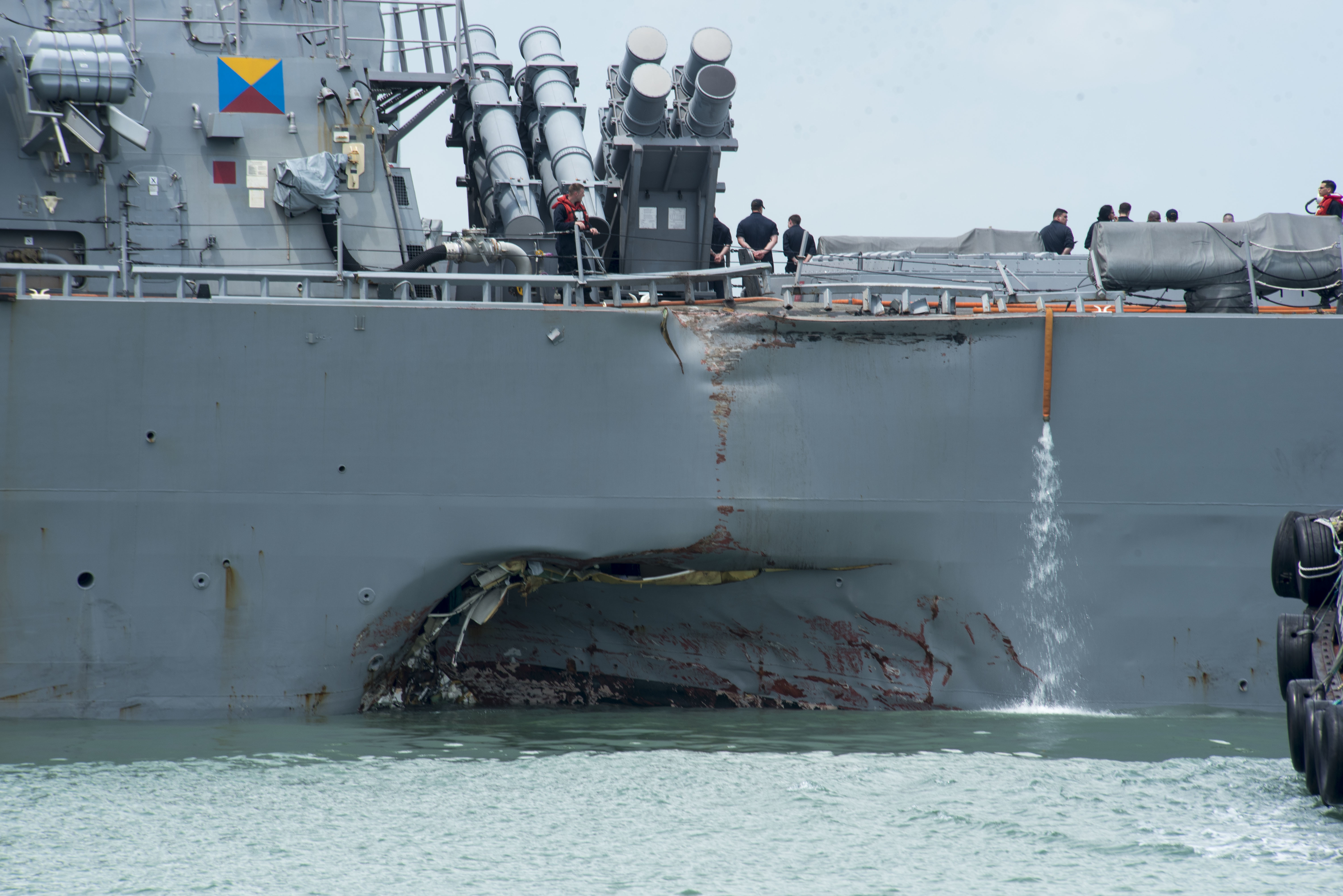 CHANGI NAVAL BASE, REPUBLIC OF SINGAPORE (August 21, 2017) Damage to the portside is visible as the guided-missile destroyer USS John S. McCain (DDG 56) steers towards Changi Naval Base, Republic of Singapore, following a collision with the merchant vessel Alnic MC while underway east of the Straits of Malacca and Singapore. Significant damage to the hull resulted in flooding to nearby compartments, including crew berthing, machinery, and communications rooms. Damage control efforts by the crew halted further flooding. The incident will be investigated. (U.S. Navy photo by Mass Communication Specialist 2nd Class Joshua Fulton/Released)